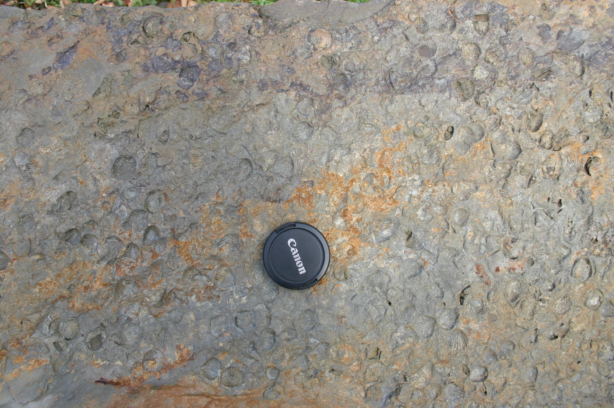 Brachiopod casts in the Lock Haven Formation, Leberfinger Quarry, Sullivan County, Pennsylvania. Lens cap 5.8 cm diameter.